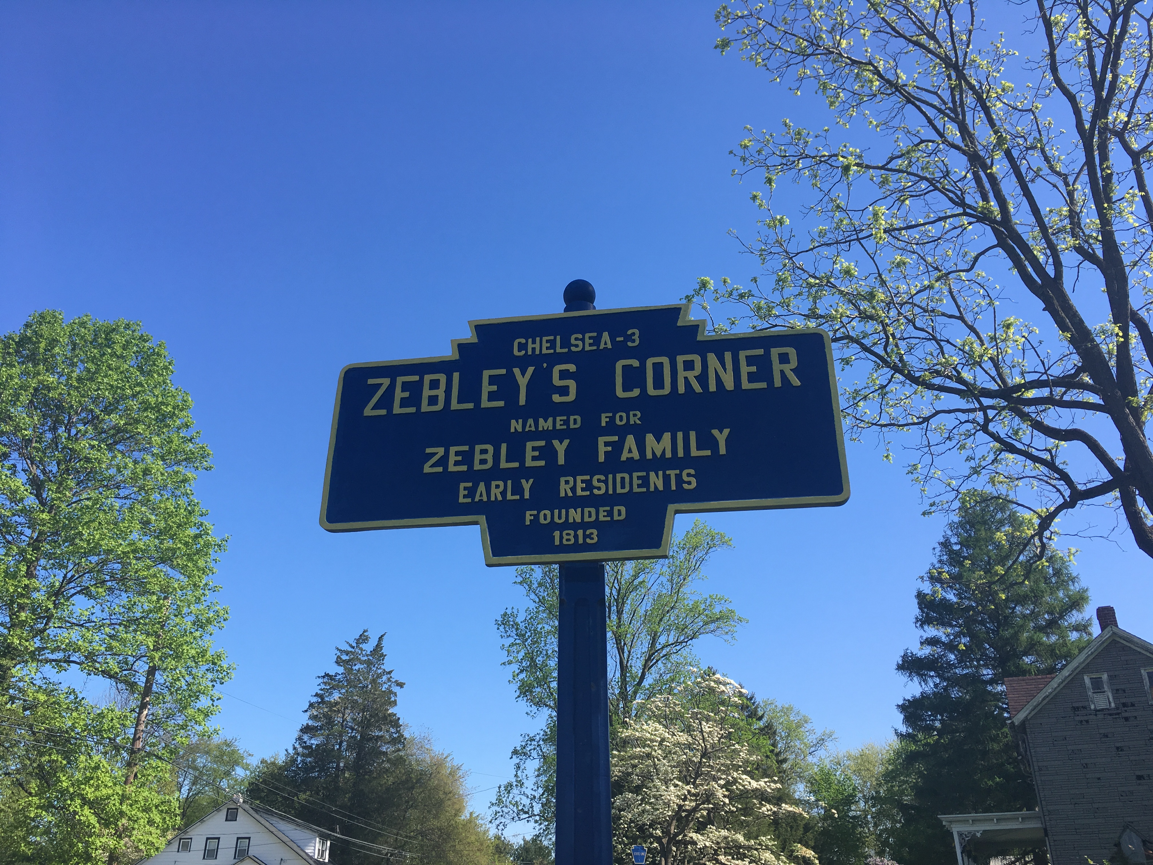 Keystone Marker for Zebley’s Corner, Pennsylvania, located on northbound Pennsylvania Route 261 (Foulk Road)